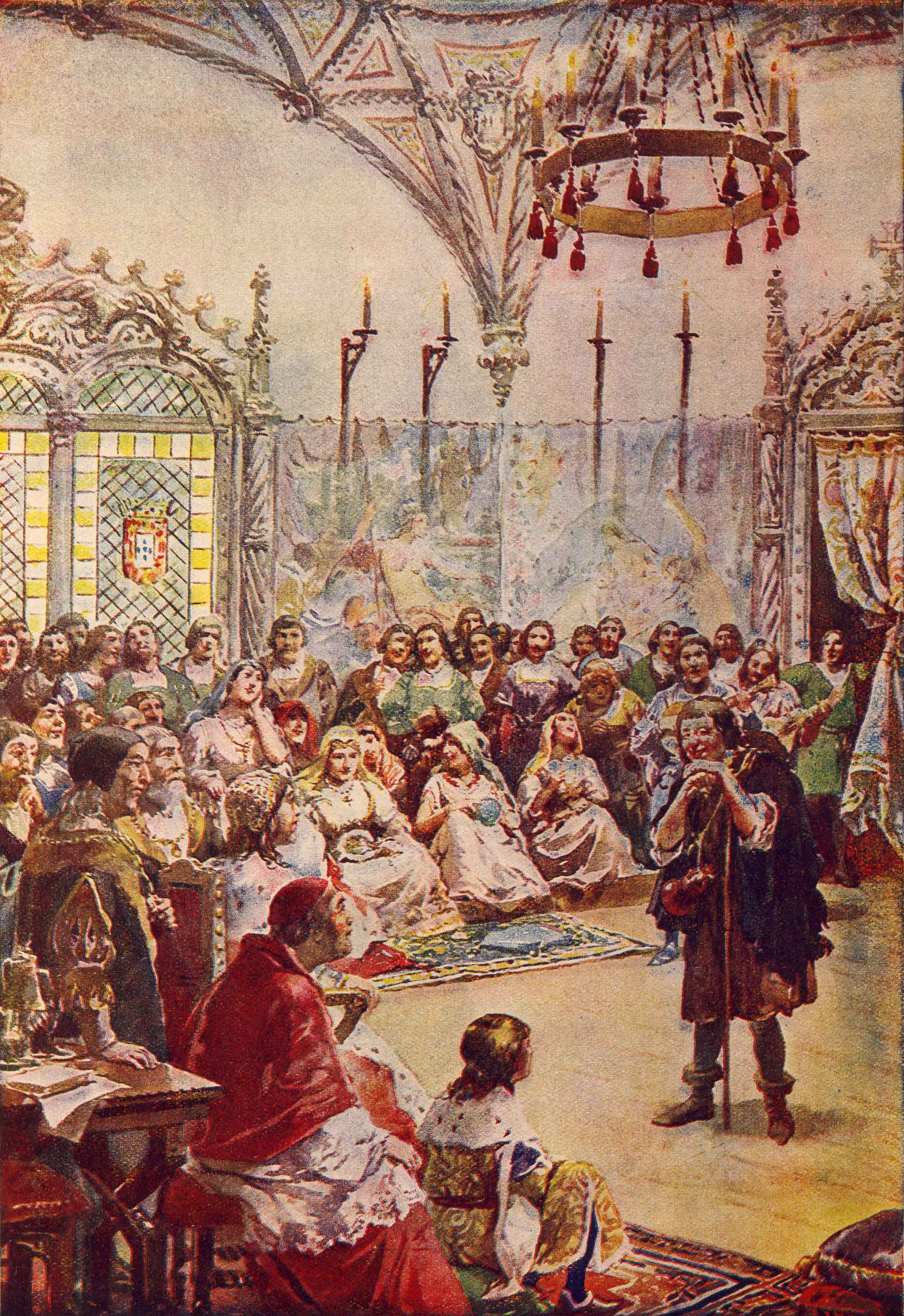 "Gil Vicente performs one of his plays before the Court of King Manuel I", by Roque Gameiro, in Quadros da História de Portugal ("Pictures of the History of Portugal", 1917).